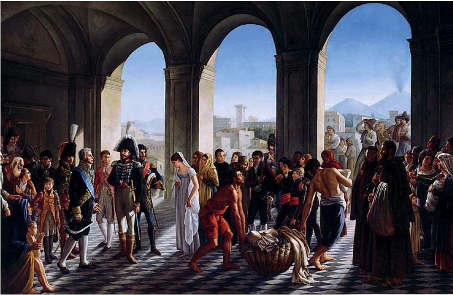 Murat visiting the "Albergo dei poveri" in Neaples